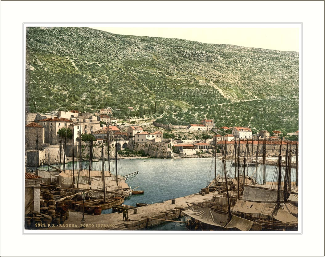 Ragusa the Inner Gate Dalmatia Austro-Hungary